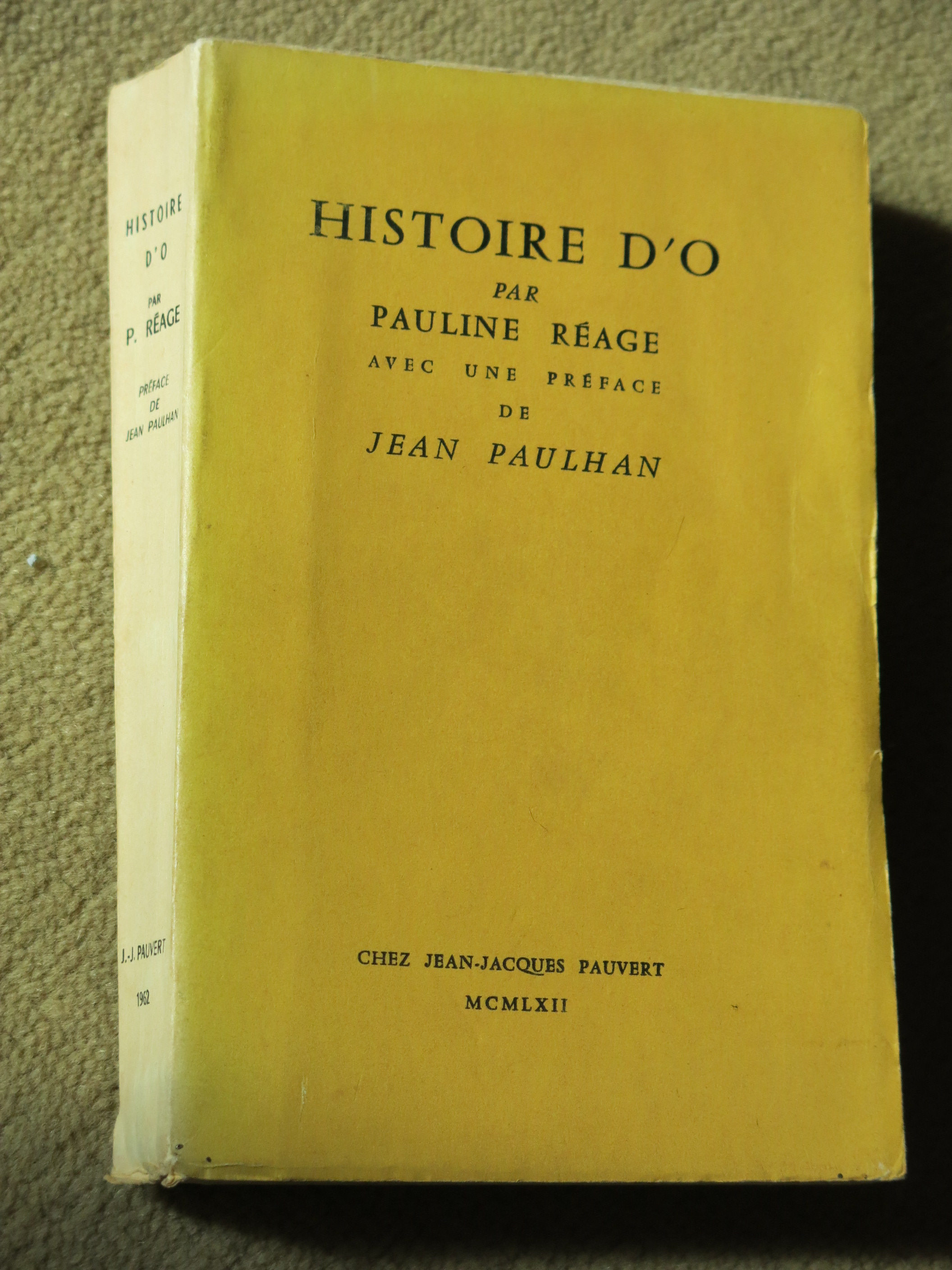 Book Histoire d'O in the version of 1962.